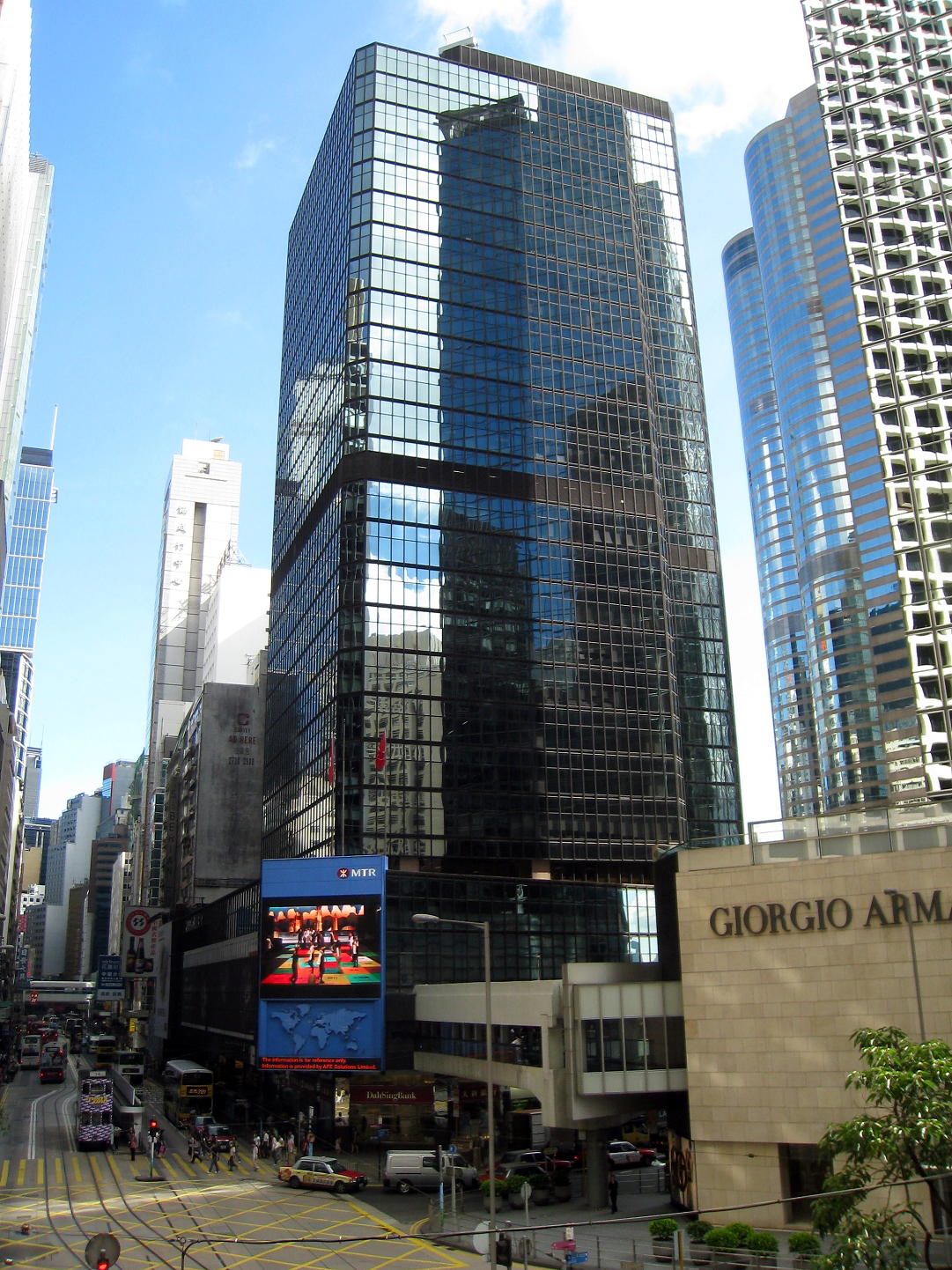 HK World Wide House 香港 環球大廈